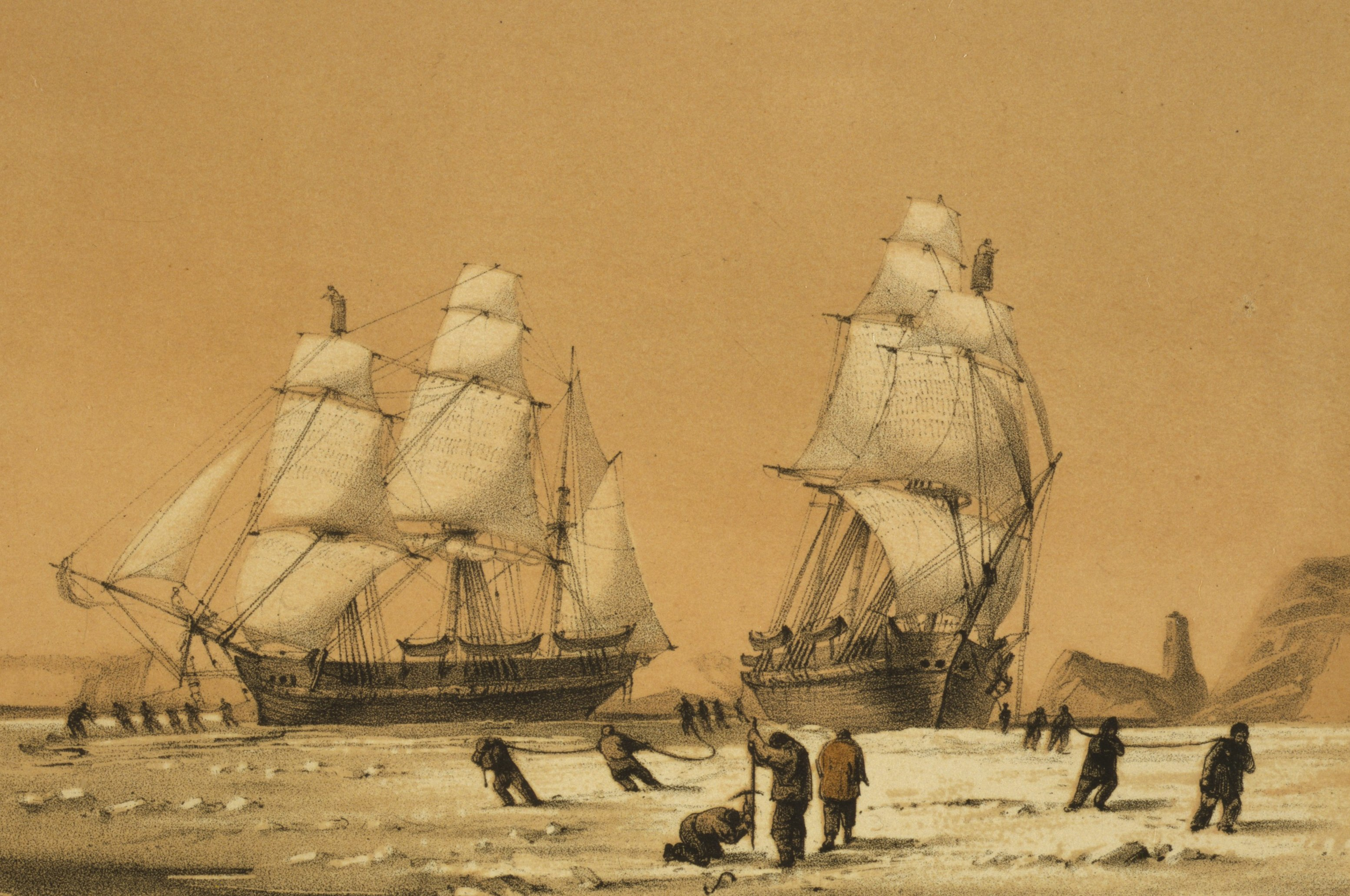 Title: The devils thumb, ships boring and warping in the pack / Lithod. by Chas. Haghe after the original by Lieut. W.H. Browne ; printed by Day & Son. Abstract/medium: 1 print : lithograph, color.